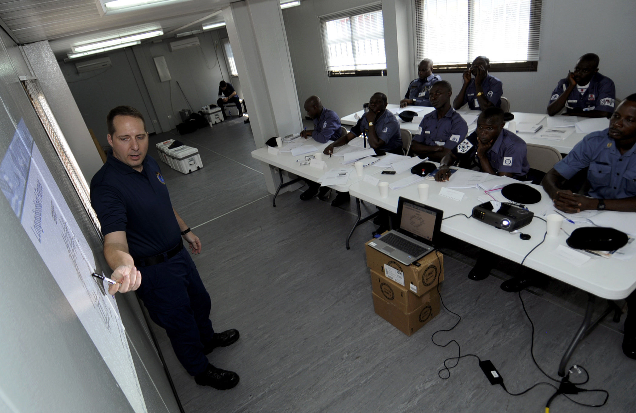 SEKONDI, Ghana (March 11, 2010) Coast Guard Chief Warrant Officer 3 Earl Schlemmer, from Ellwood, Pa., assigned to the Coast Guard's International Training Division, conducts a basic small-boat operation seminar with Ghanaian, Nigerian, and Benin sailors in a training classroom aboard the amphibious dock landing ship USS Gunston Hall (LSD 44) as part of Africa Partnership Station (APS) West. APS is an international initiative developed by Naval Forces Europe and Naval Forces Africa, which aims to improve maritime safety and security in West and Central Africa. (U.S. Navy photo by Mass Communication Specialist 1st Class Martine Cuaron/Released)